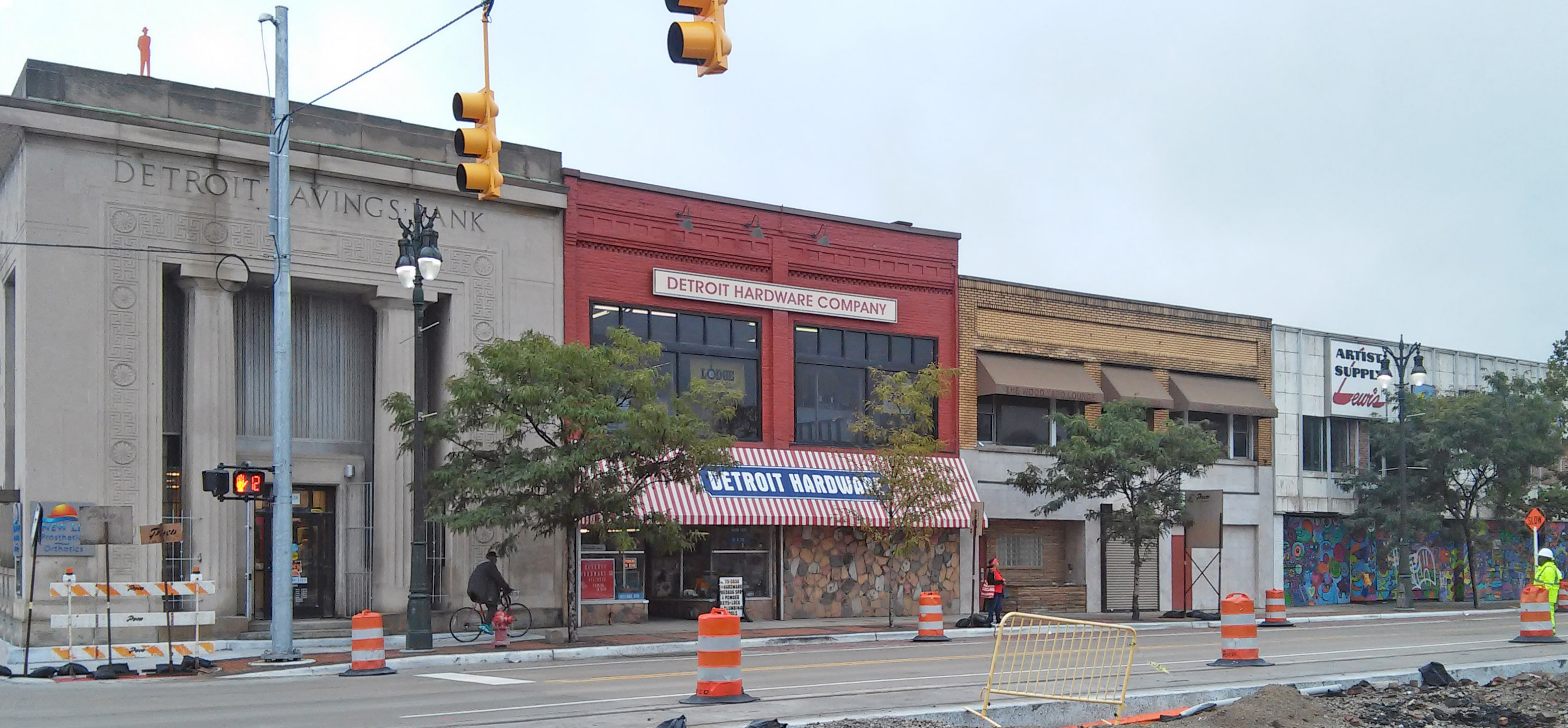 New Center Commercial Historic District, Detroit MI. At Milwaukee and Woodward, looking southeast